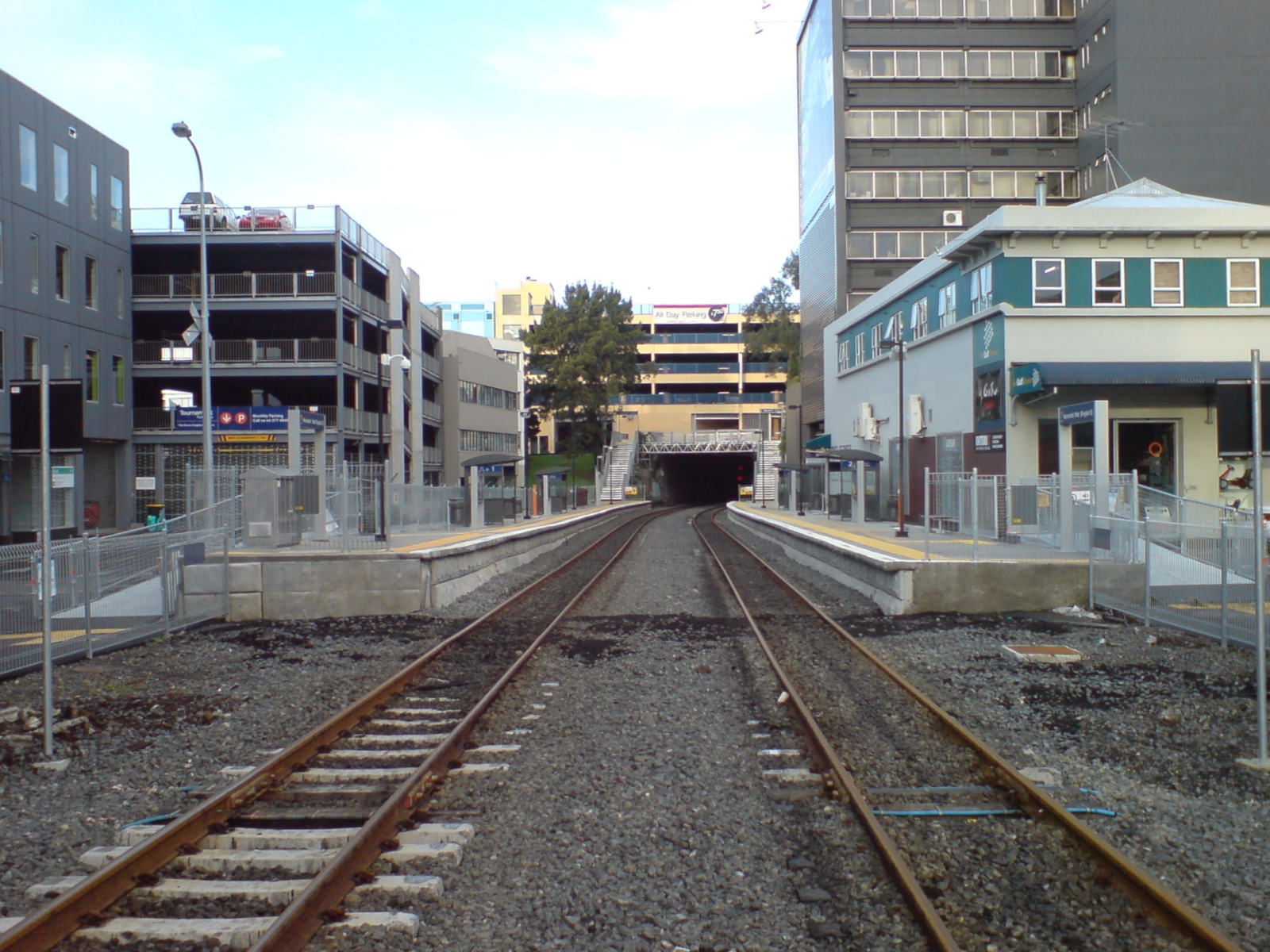 The temporary railway station Newmarket West in Kingdon Street, Newmarket, Auckland, New Zealand. Looking east towards the tunnel under Broadway and the car park south of the Olympic Pools.